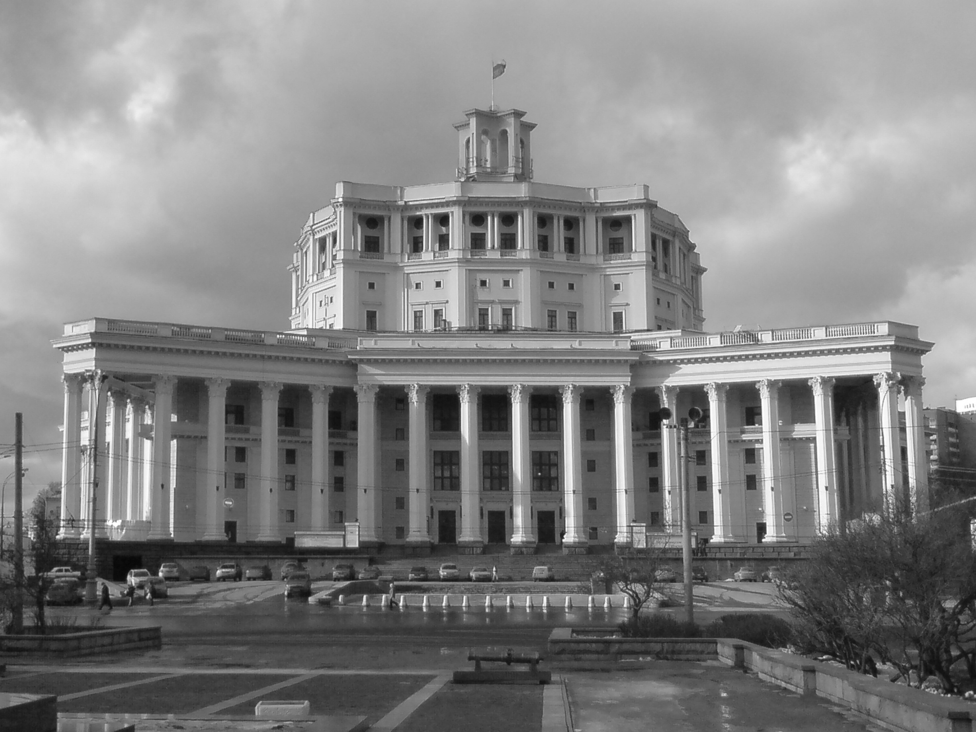 The Russian Army Theatre in Moscow.